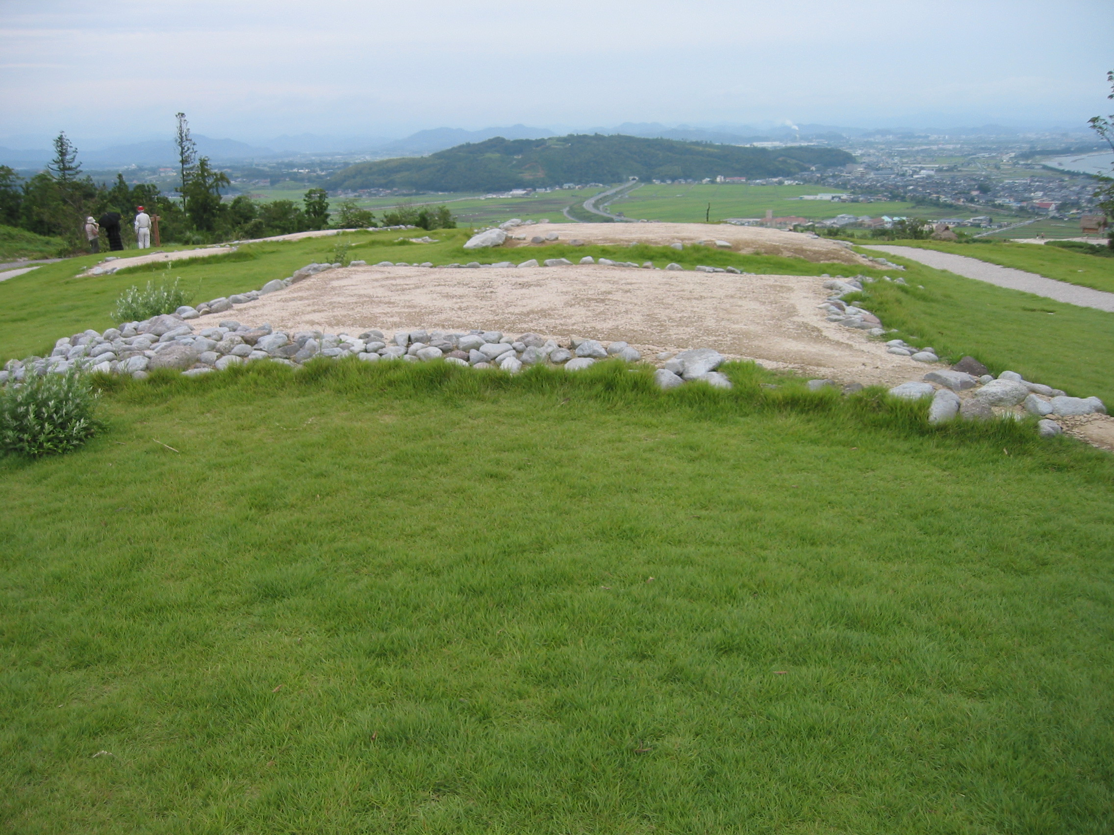 photo of Mukibanda remains,four corners projection grave at eastern hill in Dōnohara area